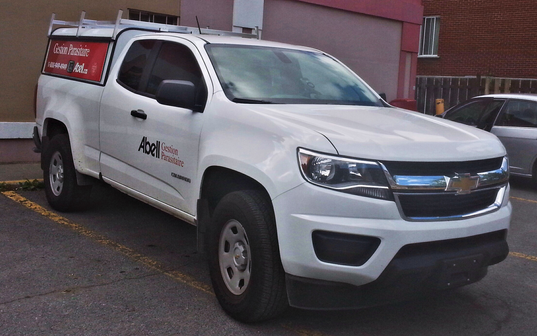 2015-present Chevrolet Colorado photographed in Montreal, Quebec, Canada.